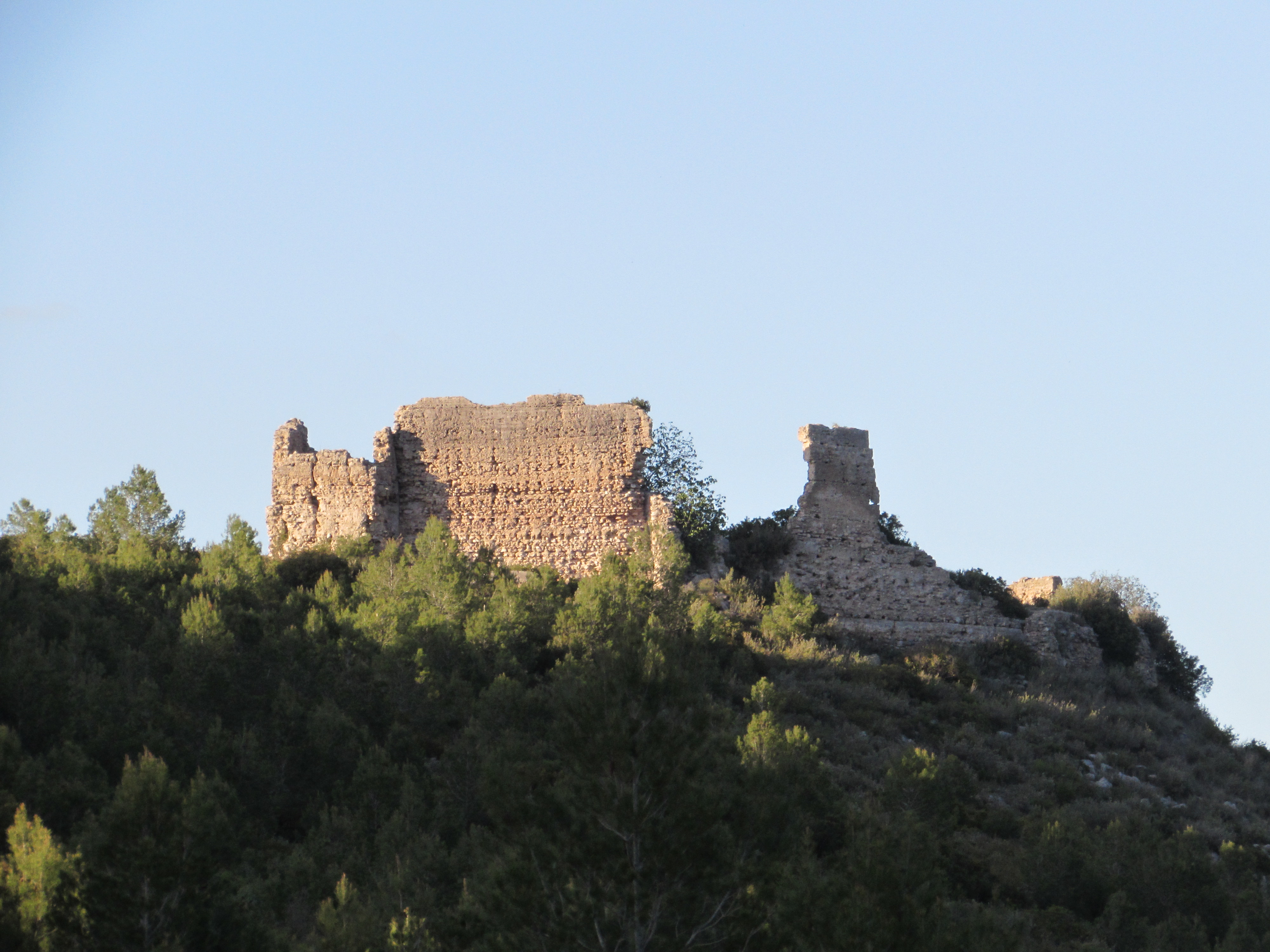 Pic of the main standing walls and tower of Vallada's Castle